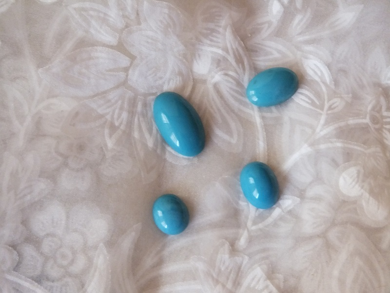 IL-stone turquoise created by Dr. Iimori